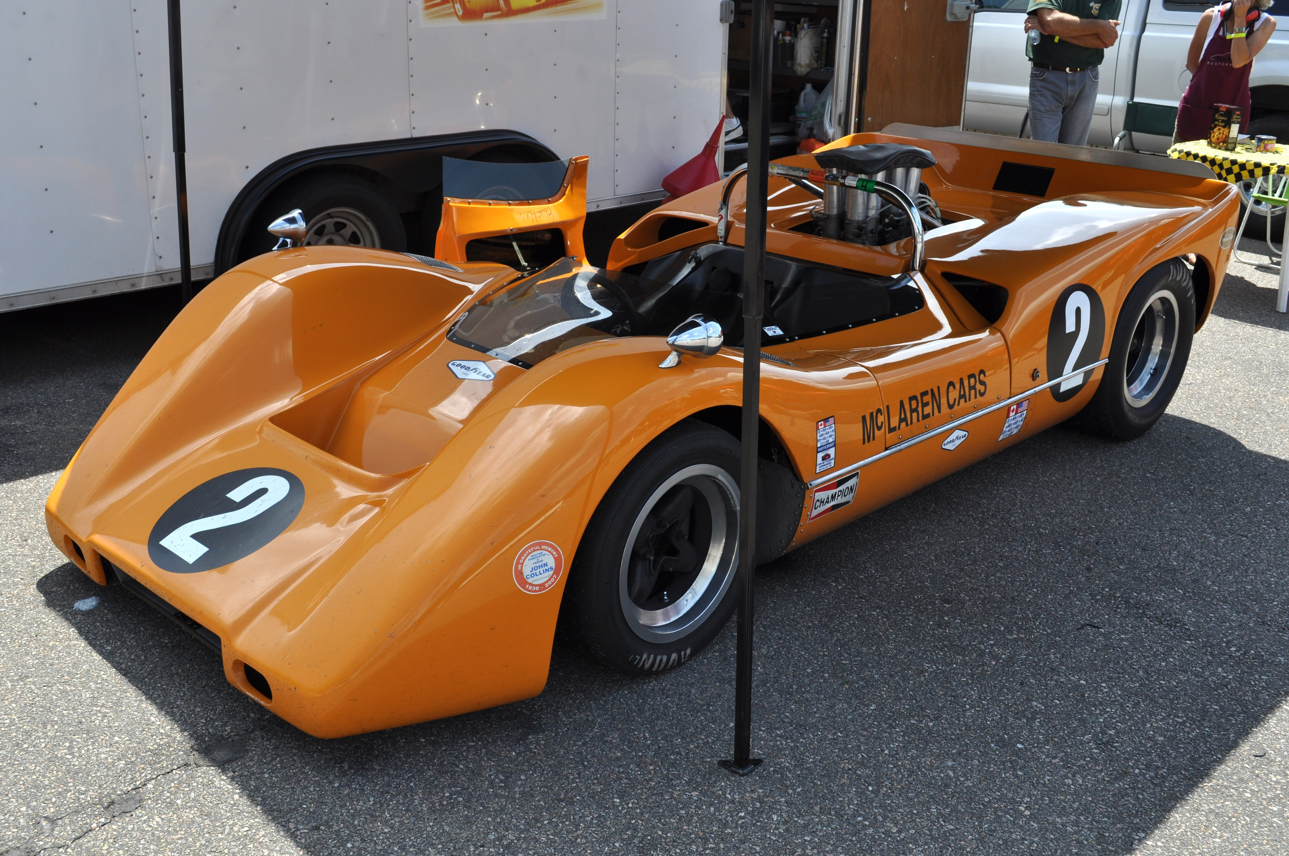 An ex-works McLaren M6B Can-Am racing car, in the paddock at Circuit Mont-Tremblant during the 2010 Legends of Motorsport meeting.